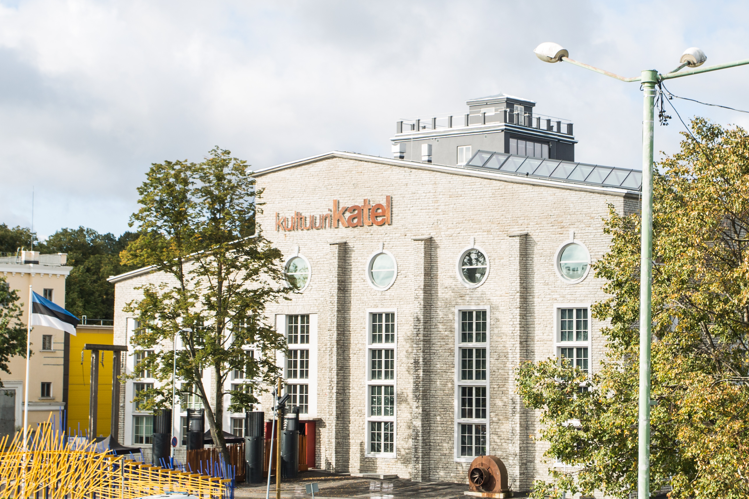 Photo: Aron Urb